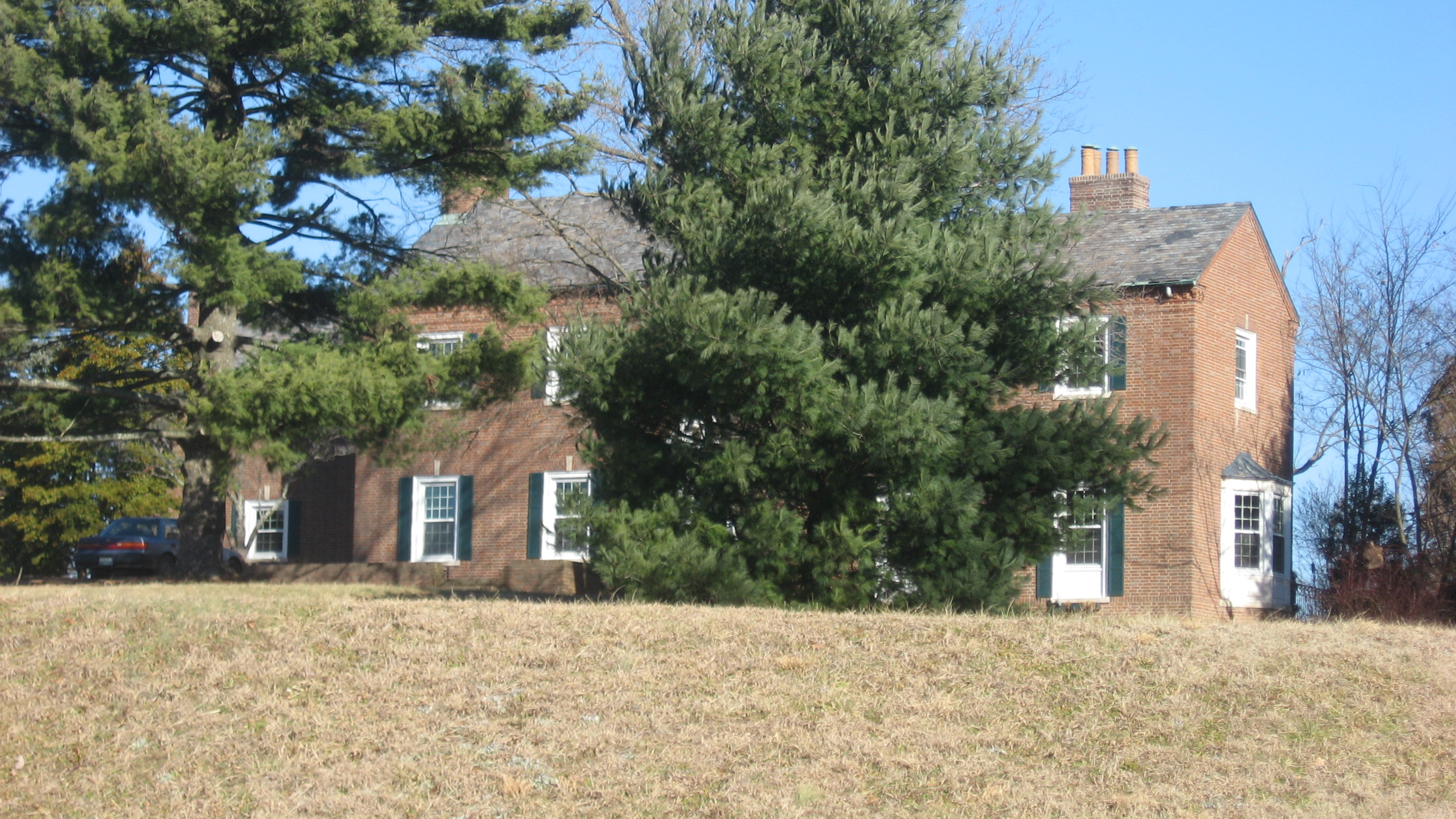 Front of the Russell House, located at 2520 Memorial Boulevard (U.S. Route 41/State Route 11) in Springfield, Tennessee, United States. Built in 1936, it is listed on the National Register of Historic Places.